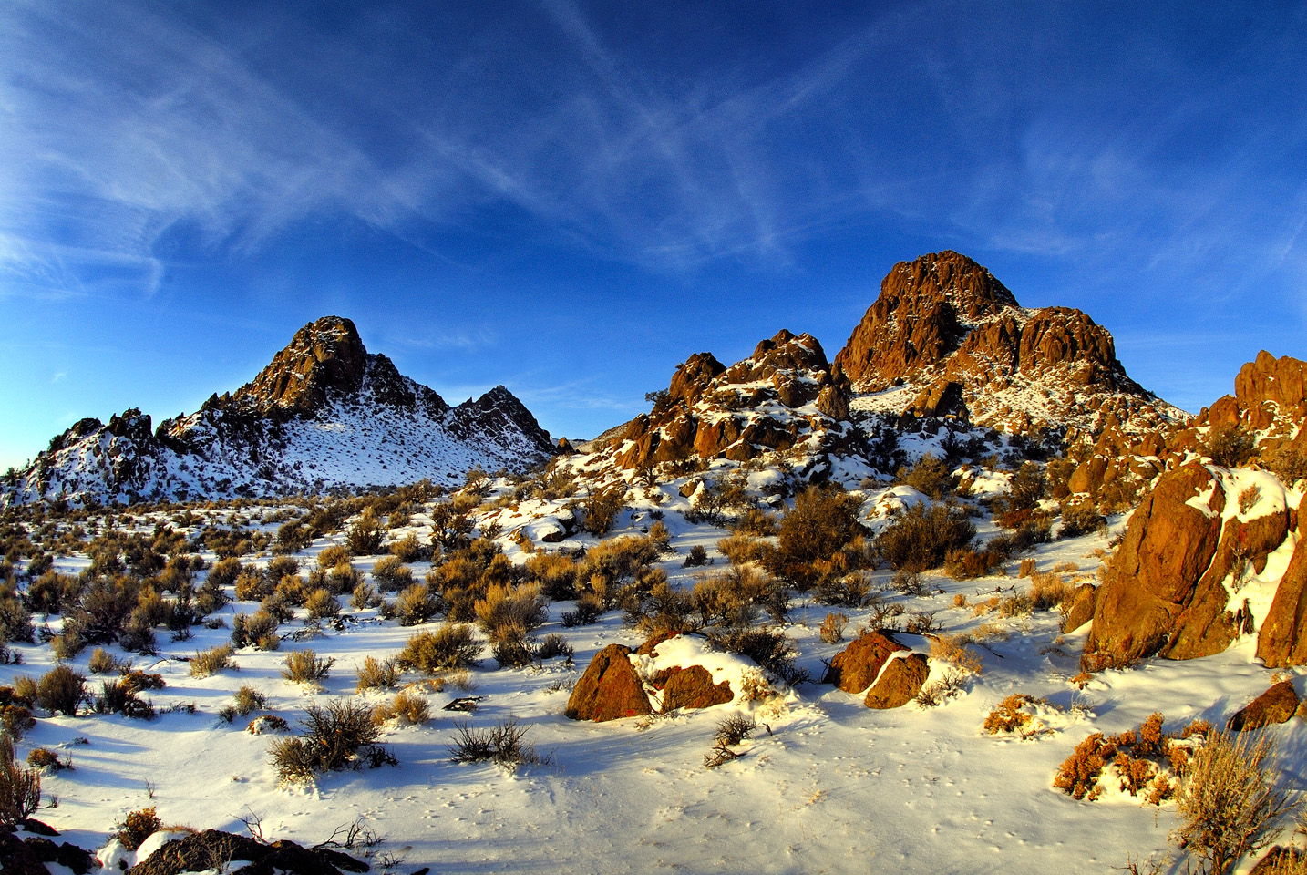 Image: Reveille Range Location: Reveille BLM District: Battle Mountain Photographer: Kurt Kuznicki PIC: 758 KB 2014